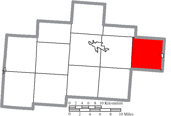 Map of the municipal and township boundaries of Hocking County, Ohio, United States, as of the 2000 census, with the location of Ward Township highlighted. Township borders are shown only in unincorporated areas in order to differentiate incorporated and unincorporated areas more clearly.